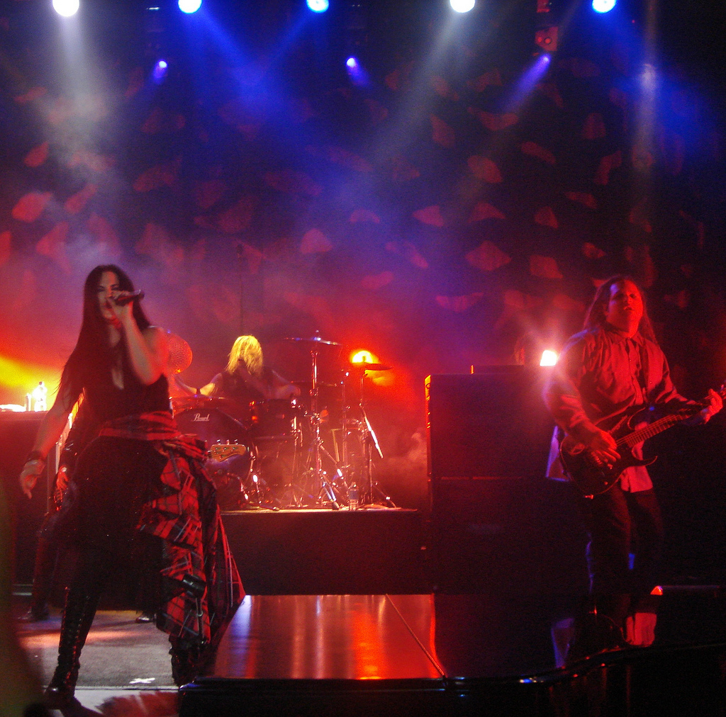 Evanescence in concert in 2011 (picture depicts Amy Lee (left), Terry Balsamo (right) and Will Hunt (back)